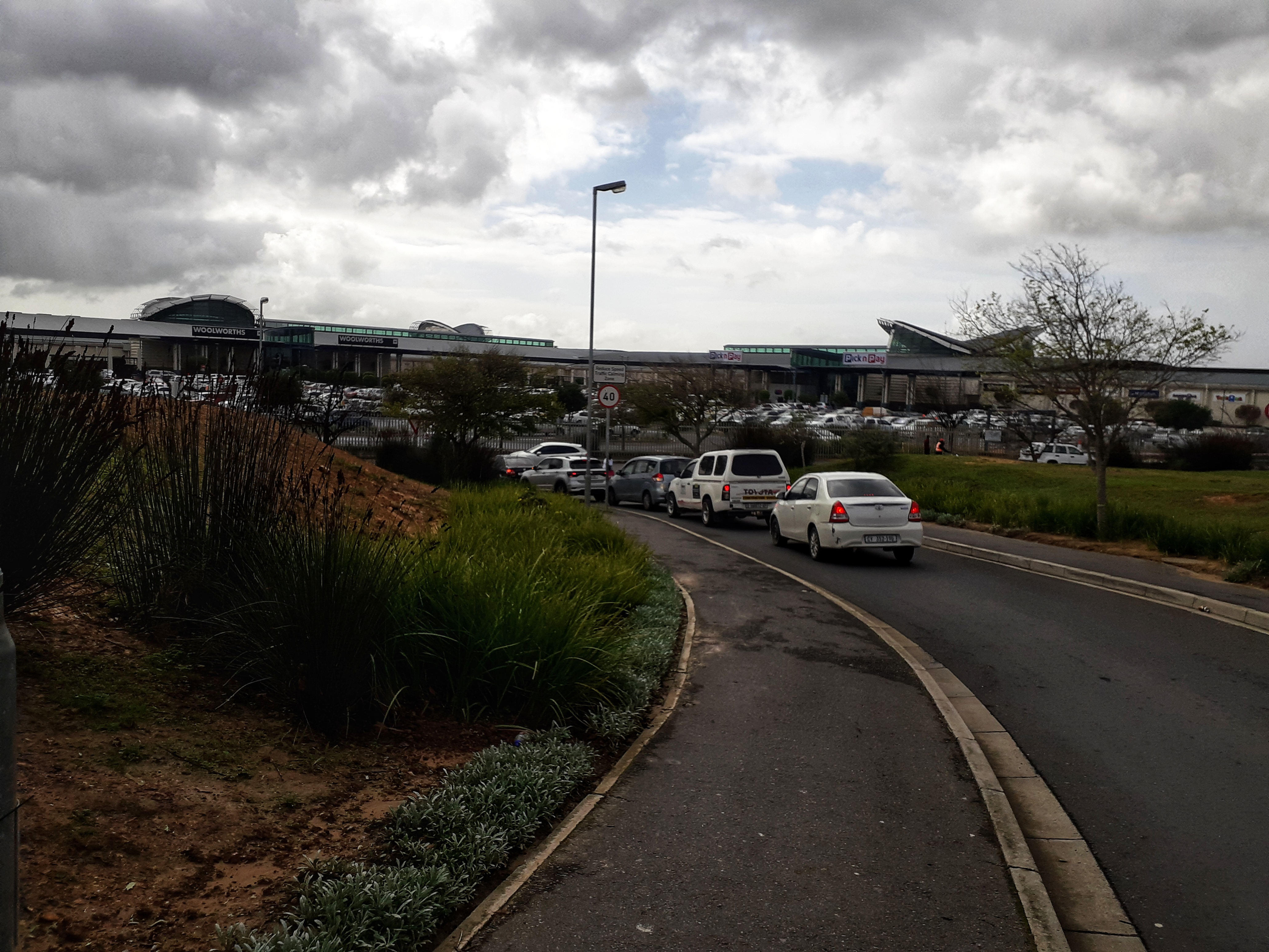 Cape Gate Shopping Centre in Brackenfell, Western Cape.